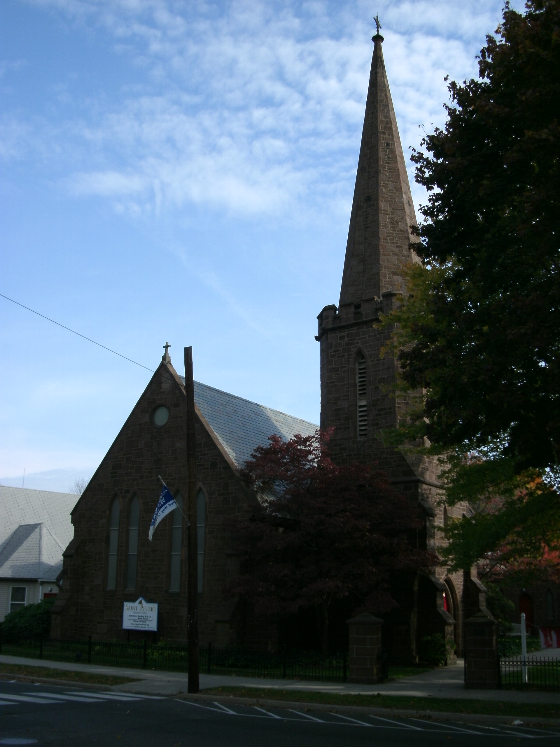 GE DIGITAL CAMERA Milford, Connecticut